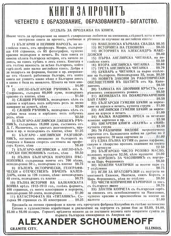 Alexander Shoumenoff Add in Naroden Glas